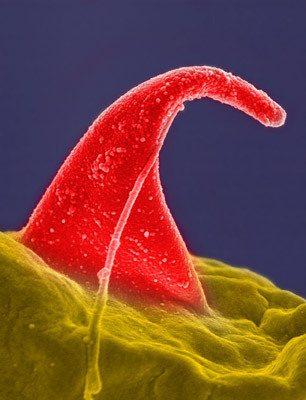 An electron micrograph showing a denticle (an actin-rich protrusion) on the epidermis of wasp mutant Drosophila. The denticle appears in red and the underlying epidermal cells in yellow.